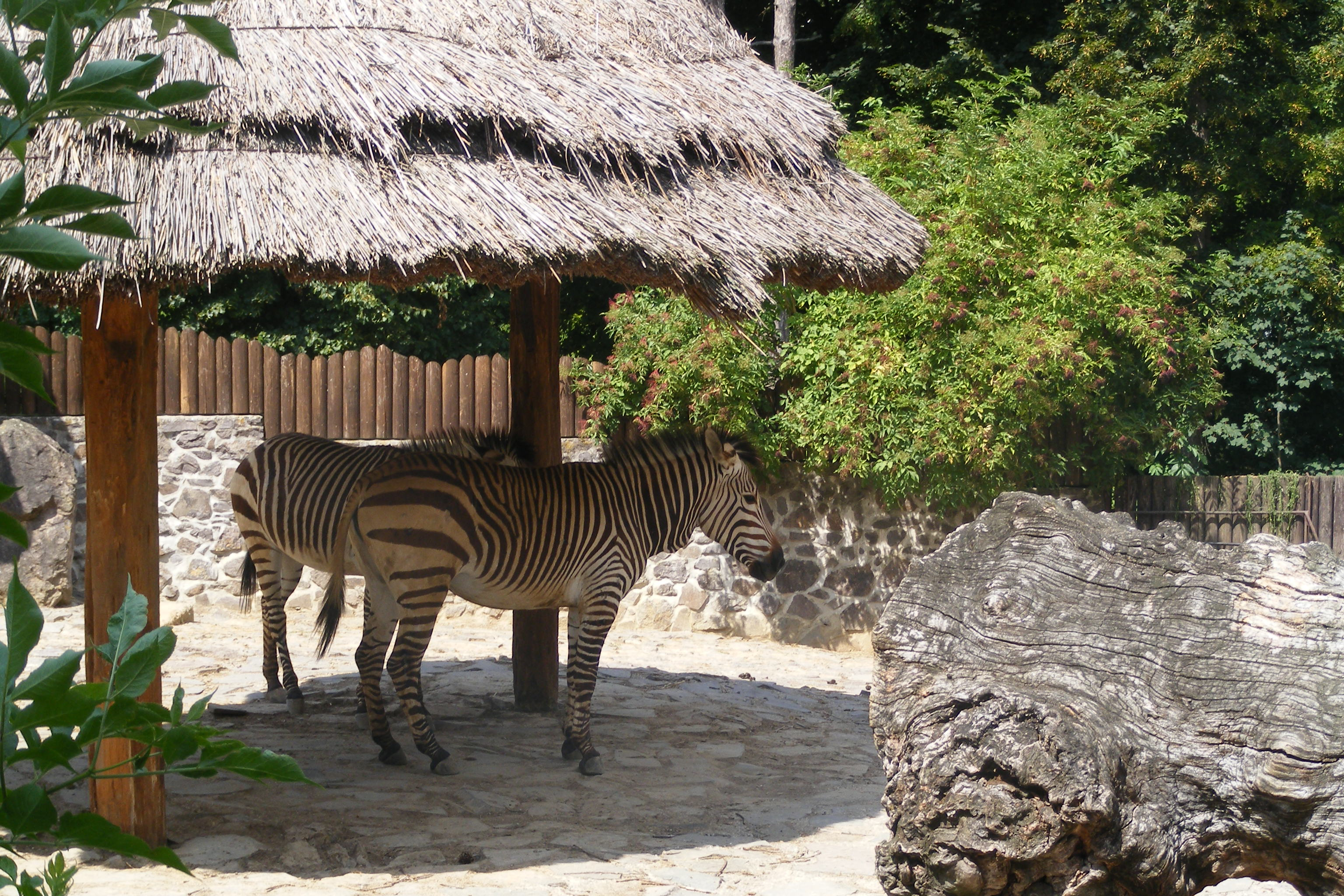 Zebras in Bojnice ZOO - june 2014